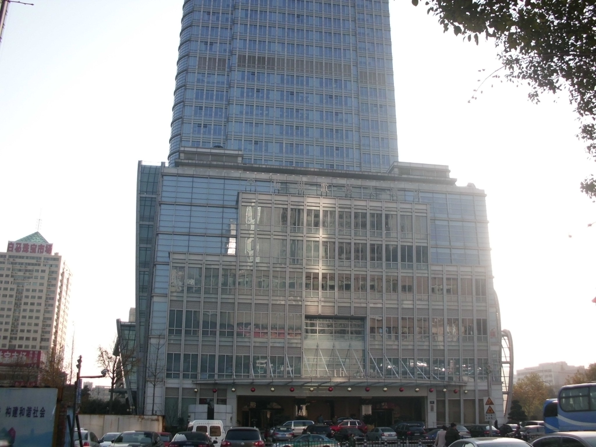 Hangzhou Goethe Hotel